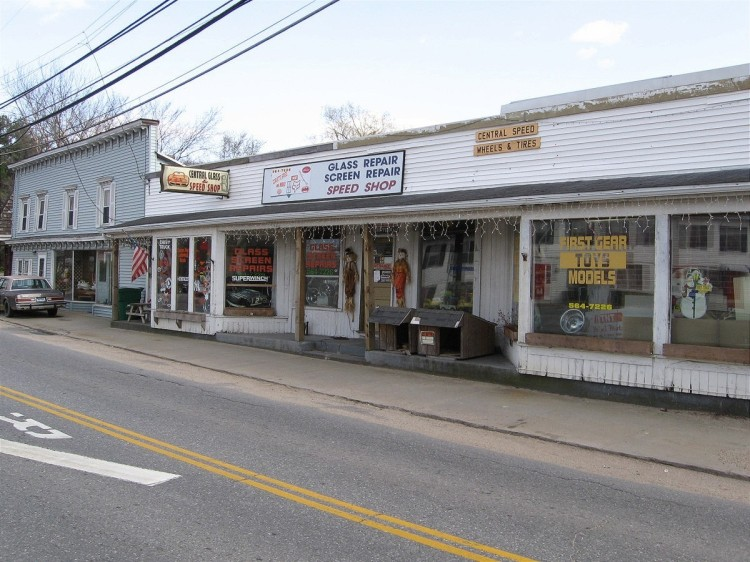 Center of Plainfield, Connecticut; part of the Central Village Historic District.